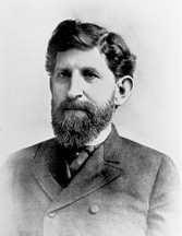 Calvin S. Brice, elected as a Democrat to the United States Senate and served from March 4, 1891, to March 3, 1897.